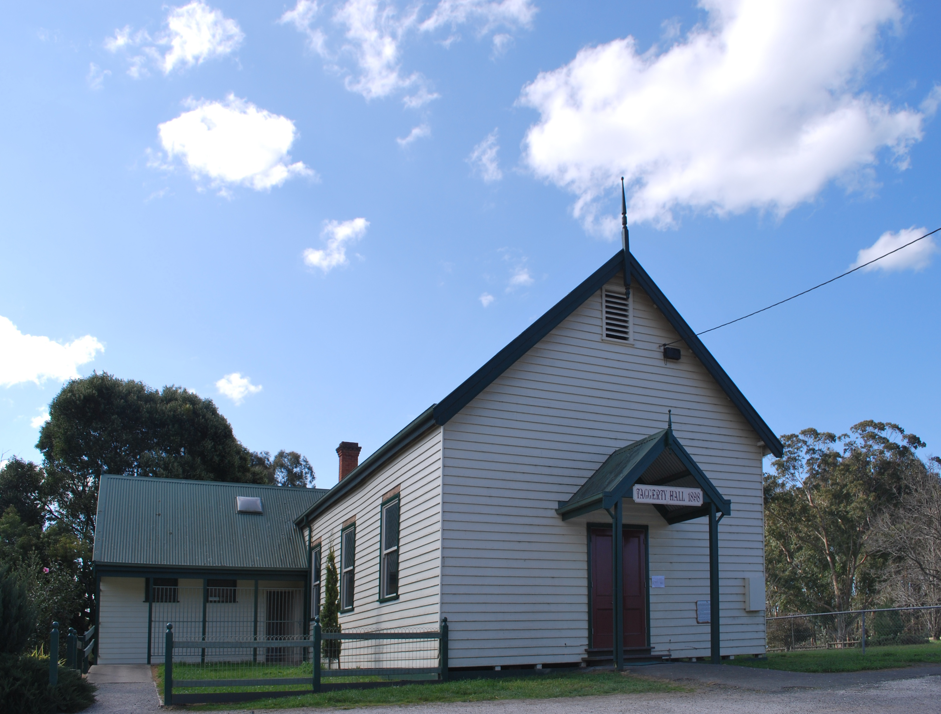 Public hall at Taggarty, Victoria